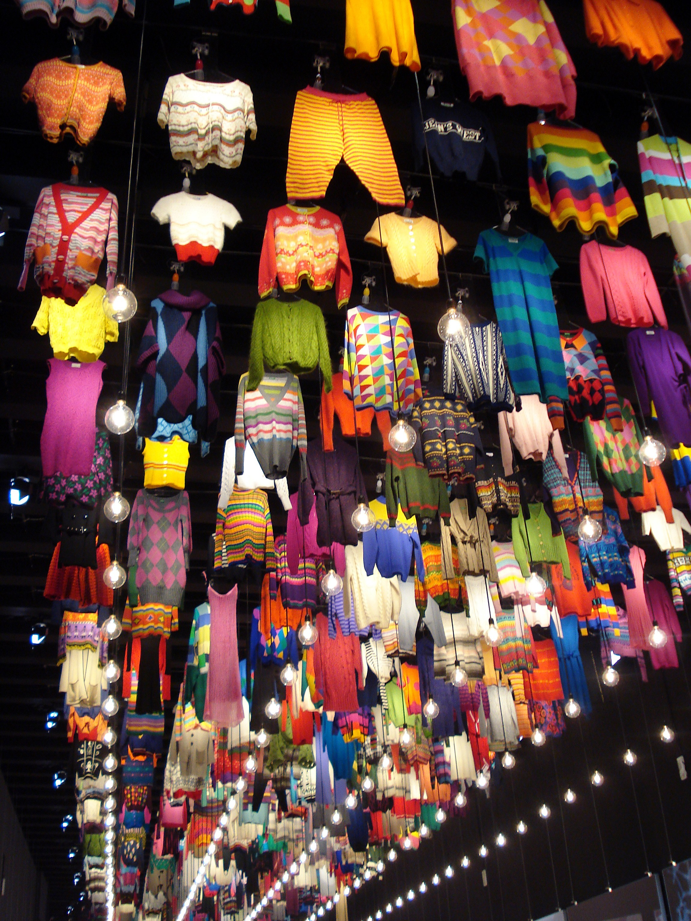 "Opening soon" is the title of exhibition by Andrea Branzi and Luisa Collina, organized by Benetton Group with the collaboration of POLI.design (La Triennale di Milano, 27.01 / 15.02.2009). The installation is testimony to the constant relationship of the company with the most innovative trends in retail design; presenting ten cutting-edge store designs commissioned to renowned architecture studios, together with the results of Colorsdesigner, the international contest promoted and organized by POLI.design for Benetton in 2007.